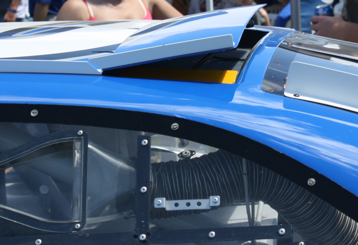 The side view of a Roof flap on a NASCAR car.